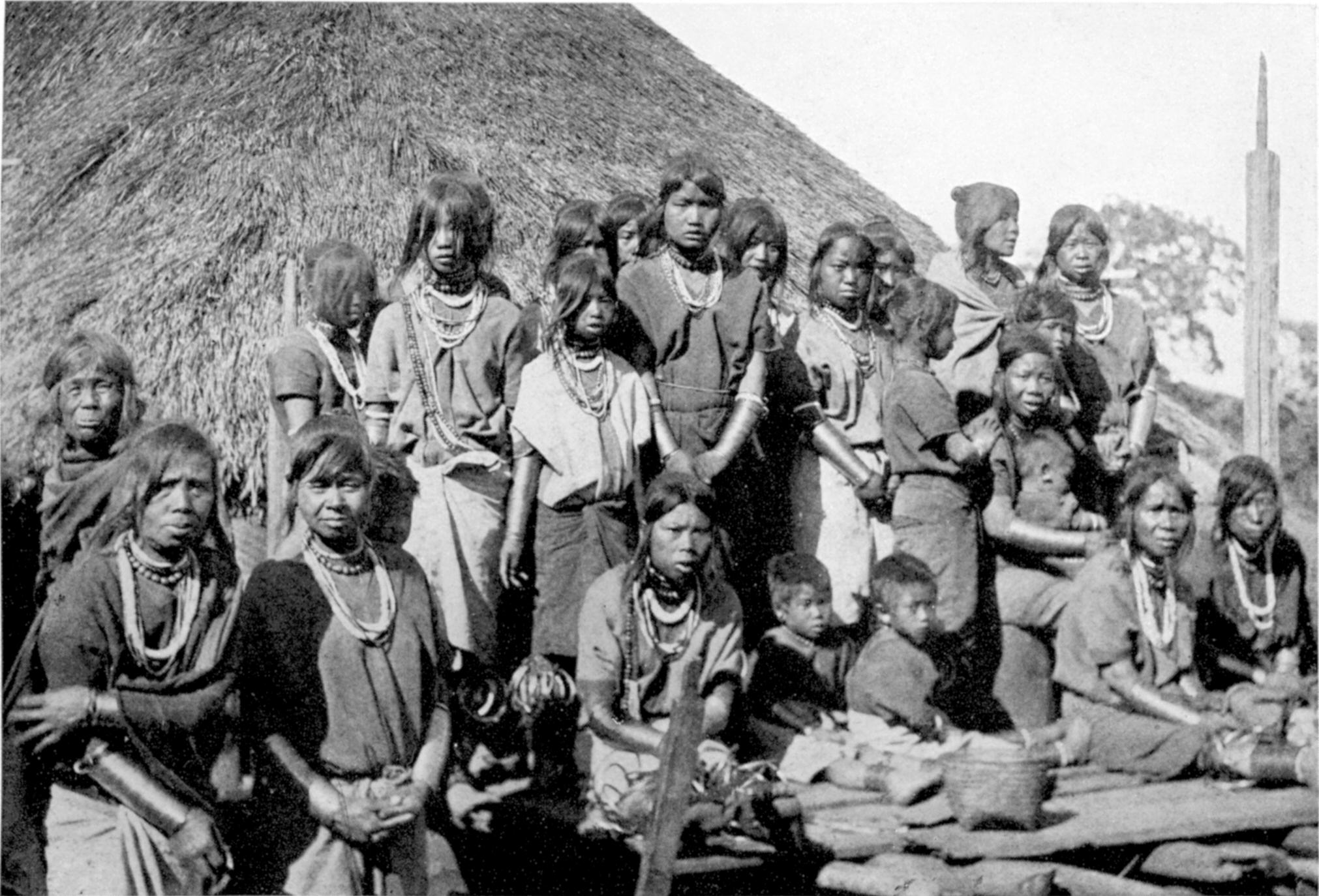 The Zayein Karen women be comely if they were less unkempt (Lahta or Kayan Lahta).The men of this clan shave their heads, except for a small patch over the ears, but the hair of the women is generally neglected. Washing the body is deemed an affectation. The inevitable coils of brass rod cover the forearms.